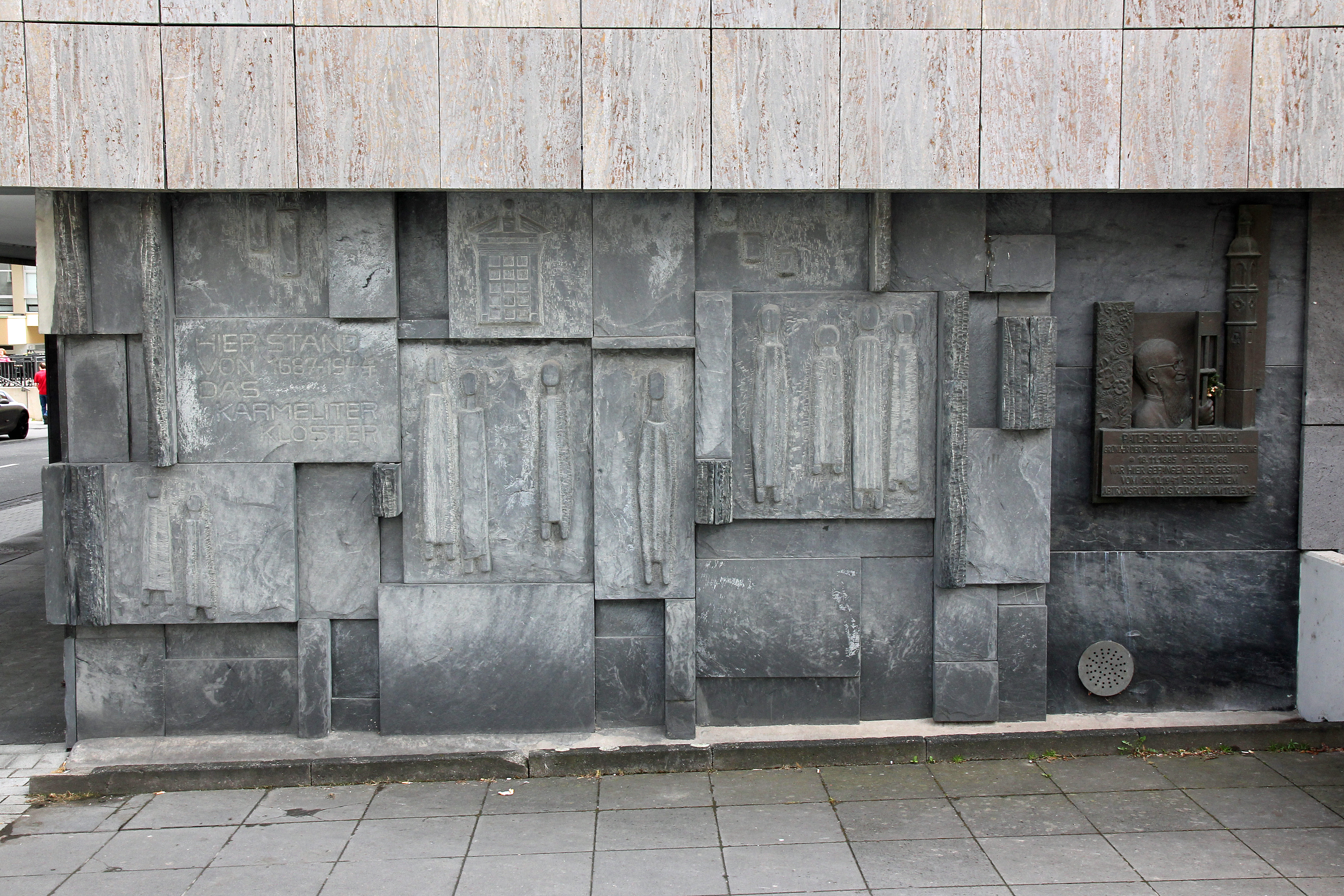 Plaque in memory of the destroyed Carmelites church in Koblenz